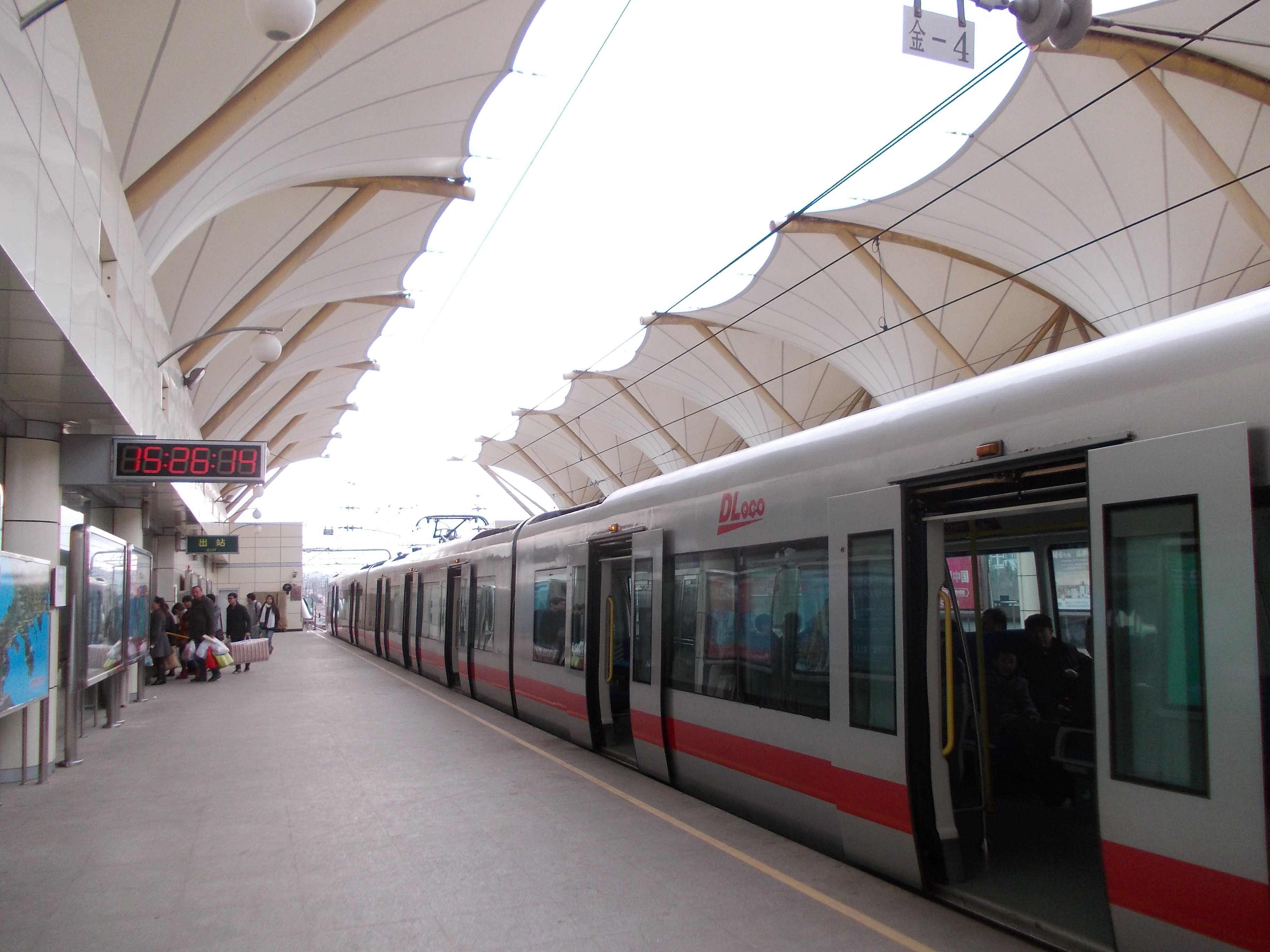 Dalian Metro, Jinshitan Station, Platform